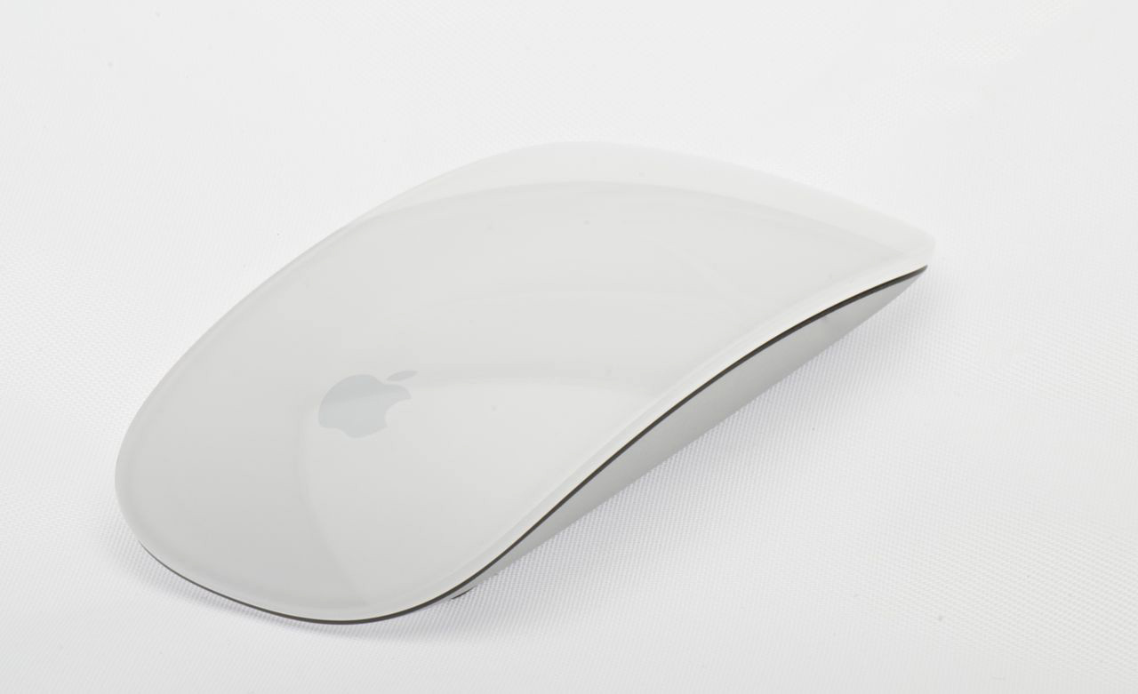 Apple Magic Mouse